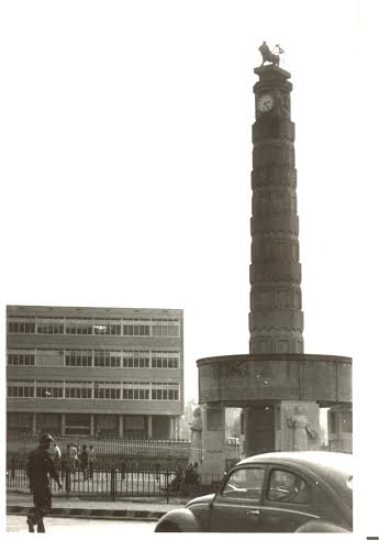 Monument on Meyazia 27 Square (Arat Kilo) in Addis Ababa (Ethiopia) in 1962. Photograph by Margherita de Koster (1918-2010)